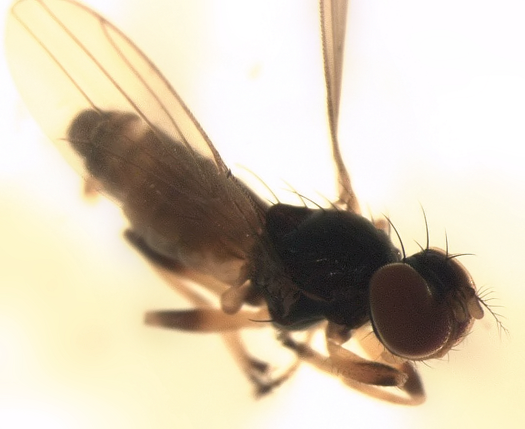 Cyamops alessandrae